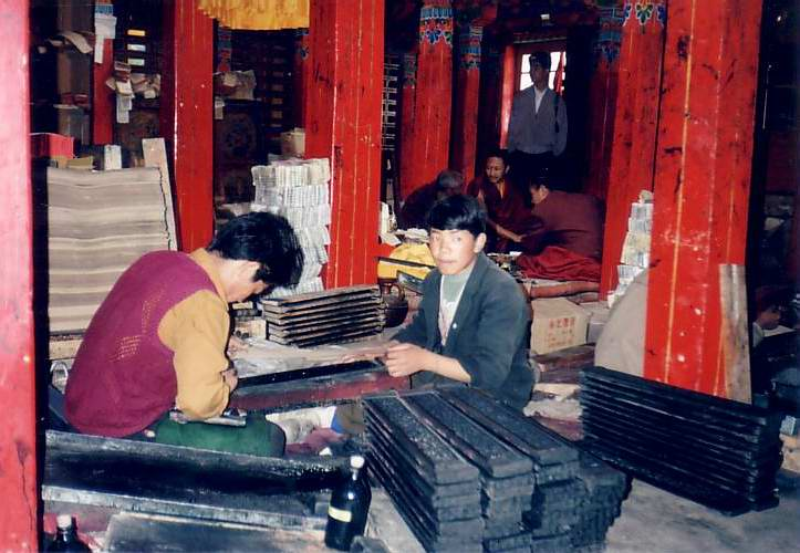 Photo taken by myself in Sera in 1993